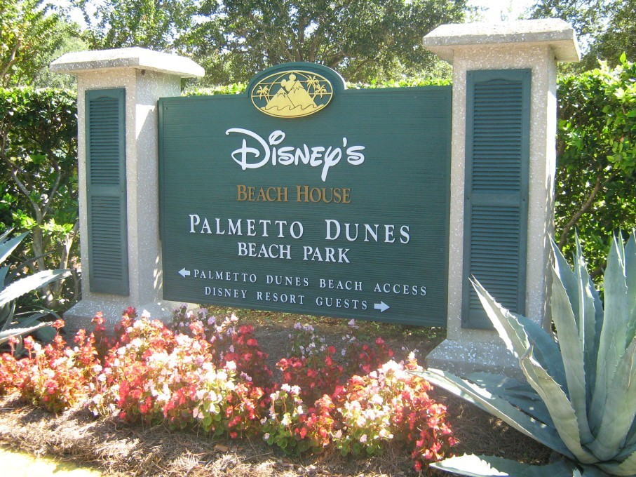 Entrance to Disney Beach House in Palmetto Dunes